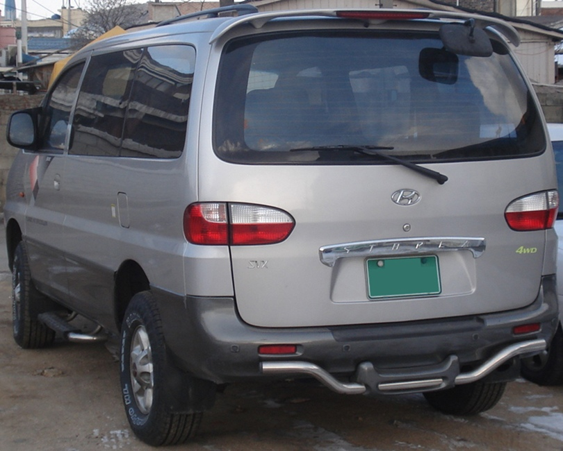 Hyundai Starex